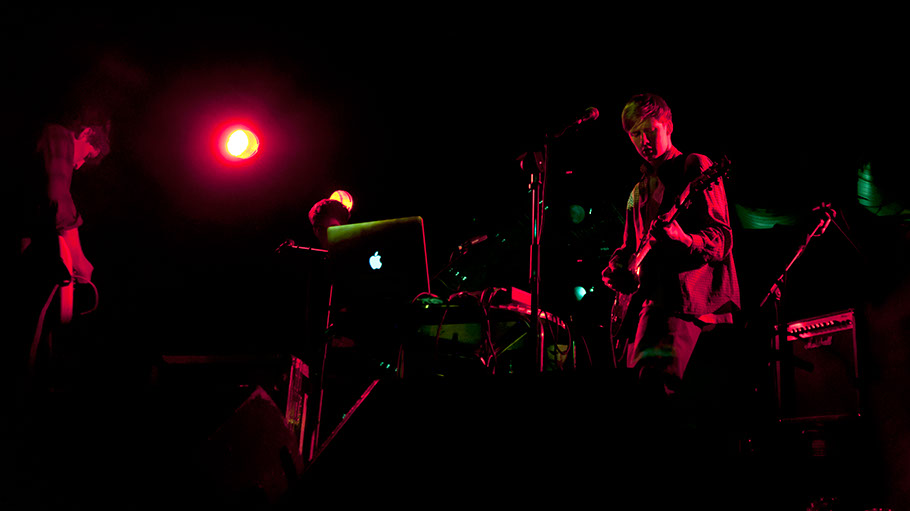 Vondelpark supporting Friendly Fires at the Arches, Glasgow on Wednesday 11 May 2011.